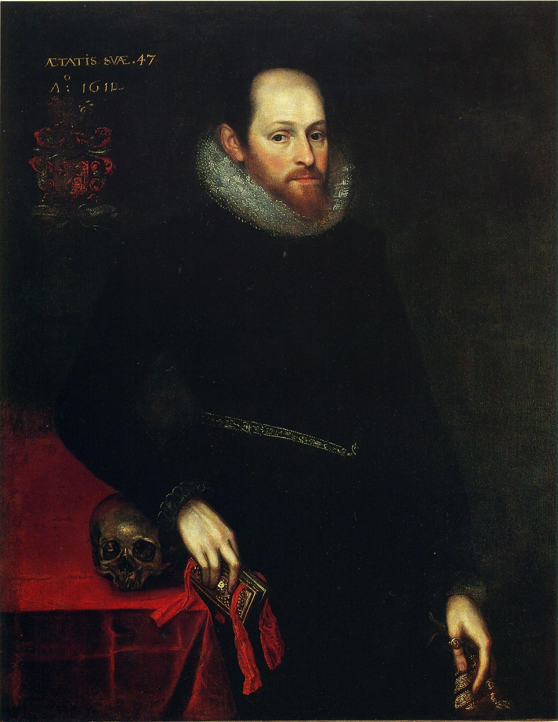 Portrait identified as Hugh Hamersley (1565-1636), Lord Mayor of London in 1627, painted in 1611 and altered sometime probably in the 19th century to pass as a contemporary portrait of Shakespeare (1564-1616). Oxfordians contend that it is a portrait of Edward de Vere, 17th Earl of Oxford (1550-1604).